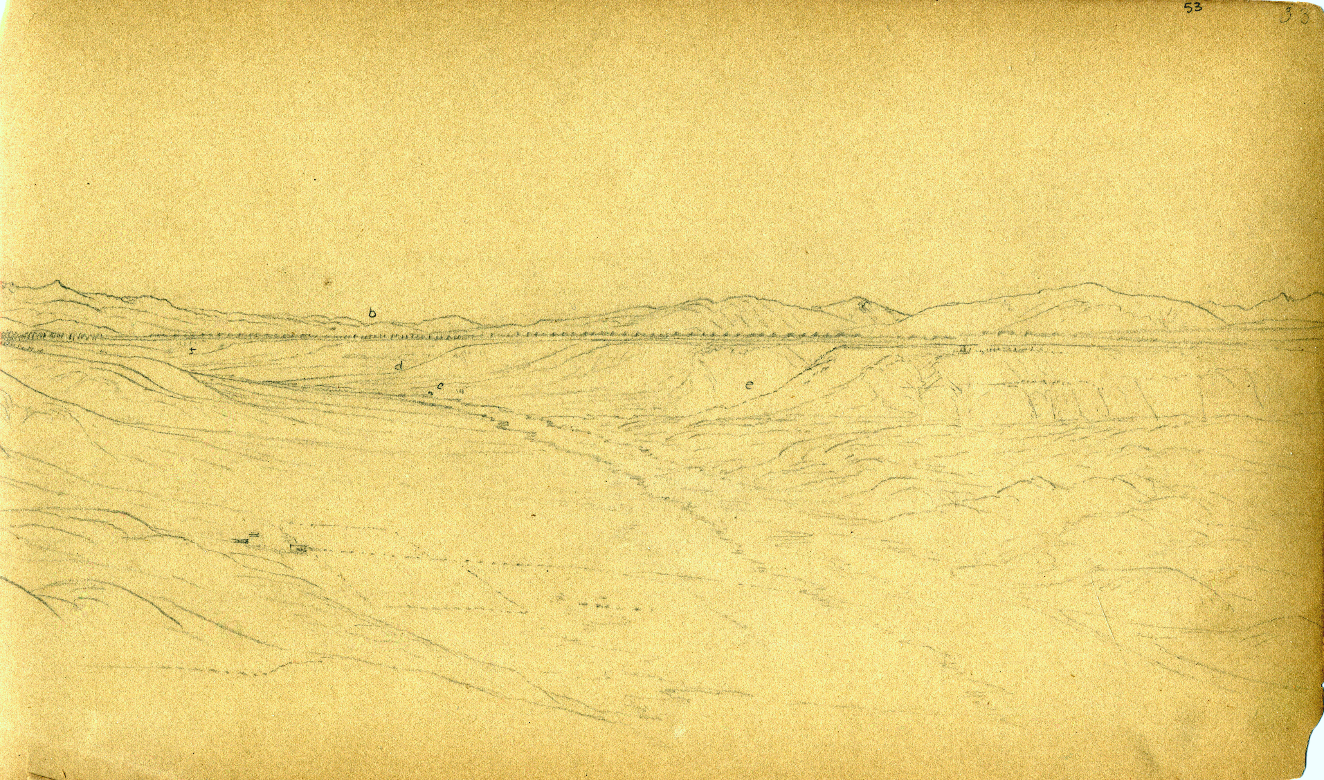 U.S. Geological and Geographical Survey of the Territories (Hayden Survey) Sheet number 53/33. Terraces of the Upper Arkansas River. Labeled features are: b - Tennessee Pass, c - camp, d - California Gulch, and e - Iowa Gulch. Forms panorama to the left with sheet number 52A (sketch 7448.39).